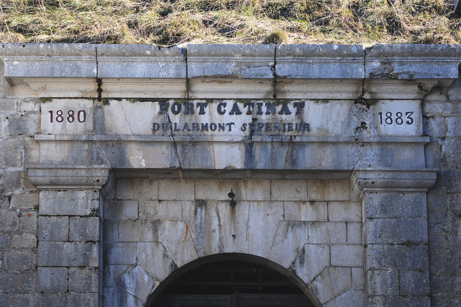 Fort Catinat, northern main entrance, FORT CATINAT DU LARMONT SUPERIEUR; Doubs, Franche-Comté, France.